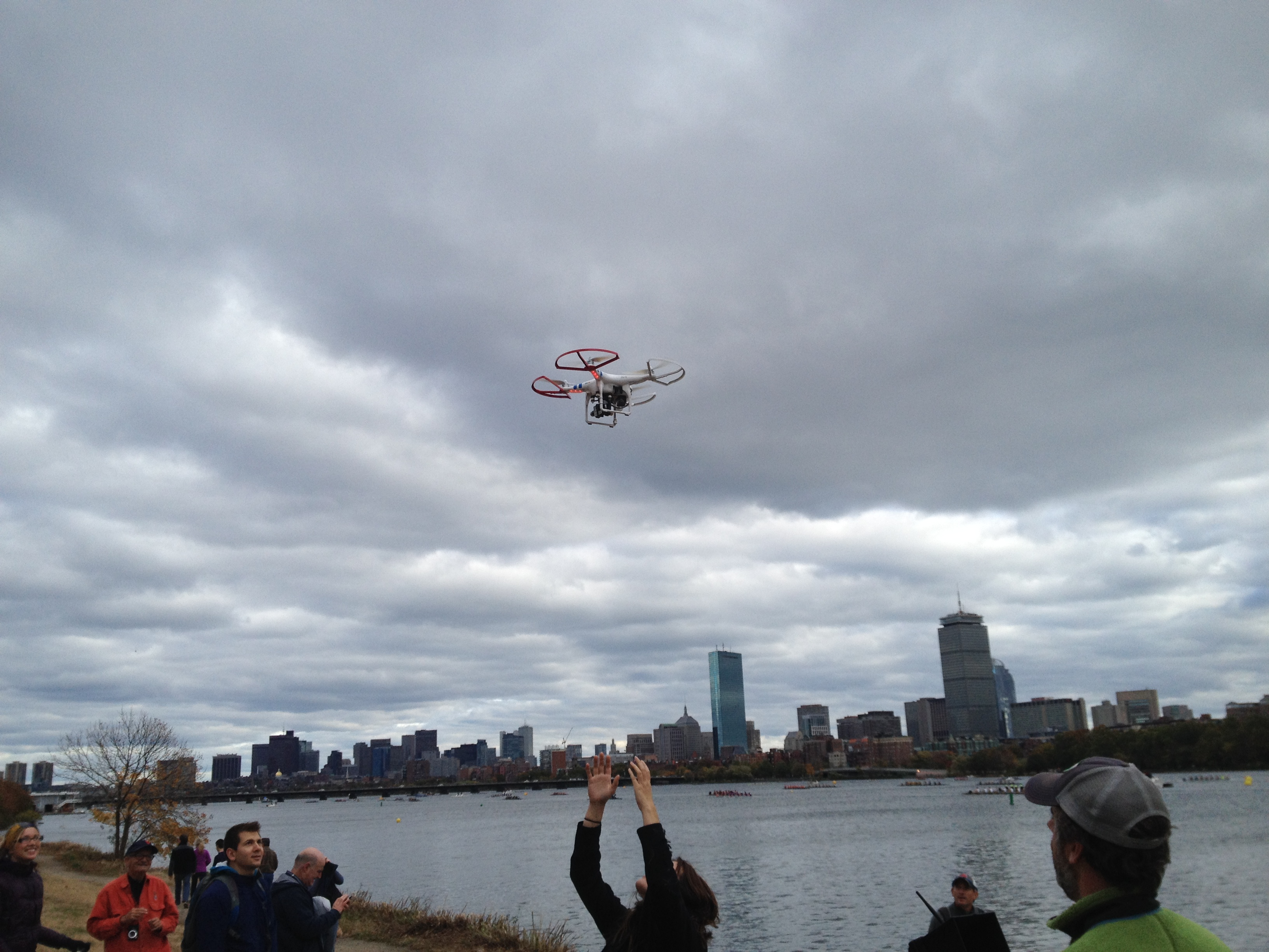 A quadcopter being recovered after photographing the Head of the Charles regatta in Cambridge, Massachusetts.